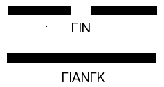 I Ching, yin yan